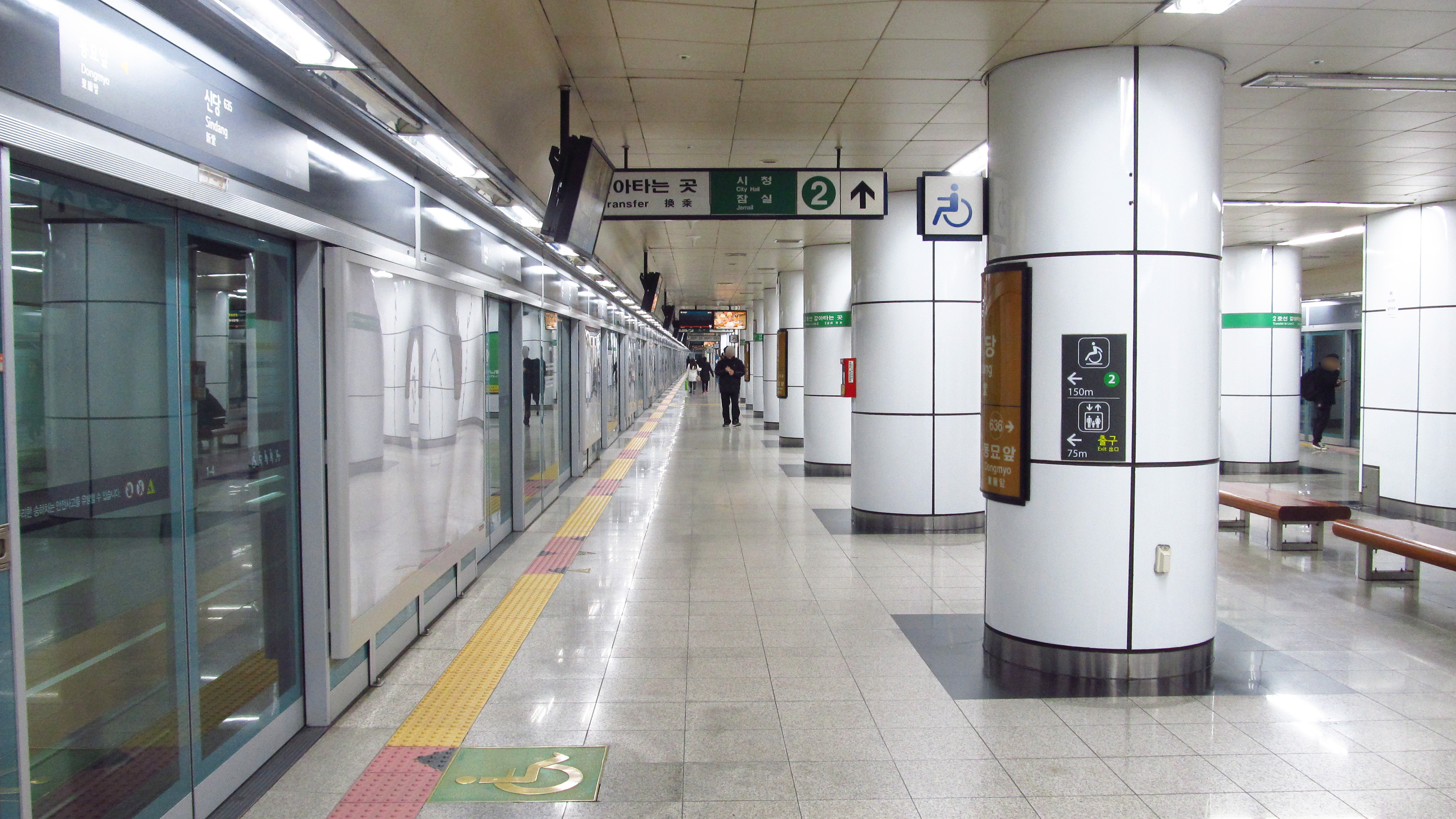 The platform at Sindang Station on Seoul Subway Line 6 in Jung-gu, Seoul, Republic of Korea(South Korea)